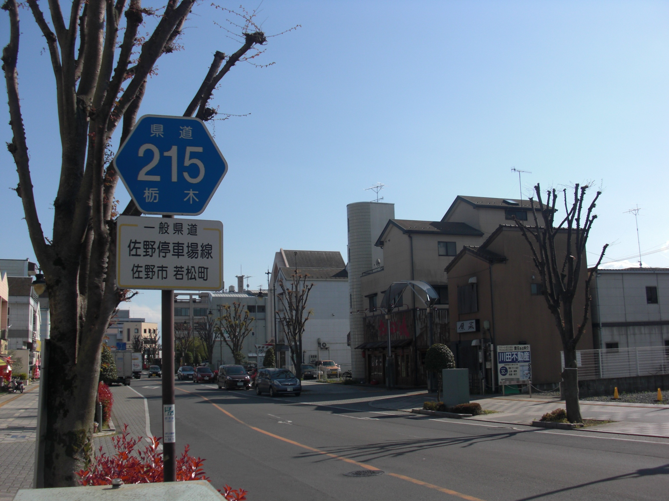 This is a landscape of Tochigi prefectural road No.215 Sano station line.